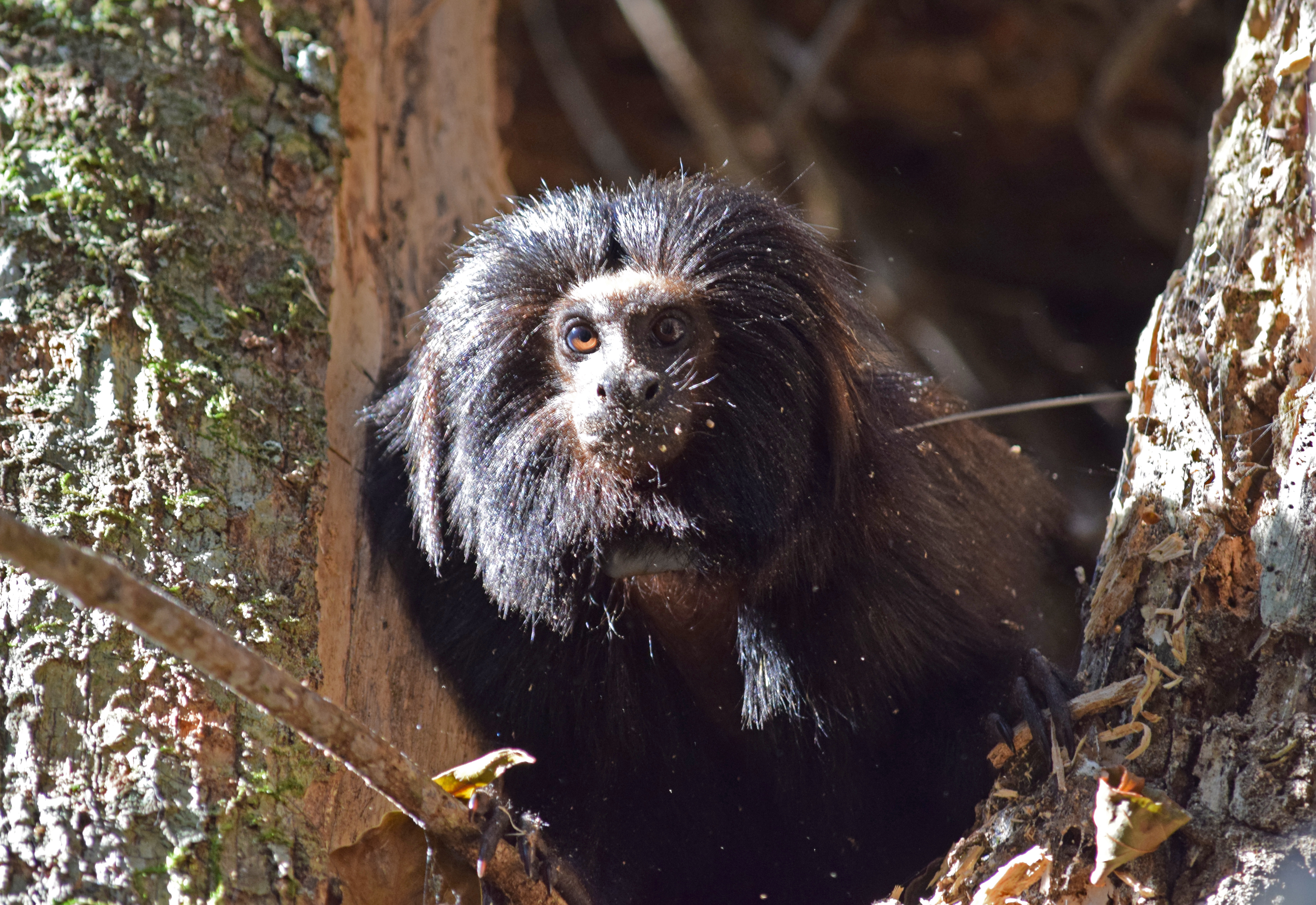 Black lion tamarin in a semidecidous forest remant in Teodoro Sampaio, São Paulo State, Brazil. Santa Mônica Farm.